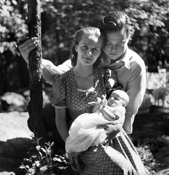 Photograph of Orson Welles and Virginia Nicolson Welles with their daughter Christopher Marlowe Welles (born March 27, 1938)